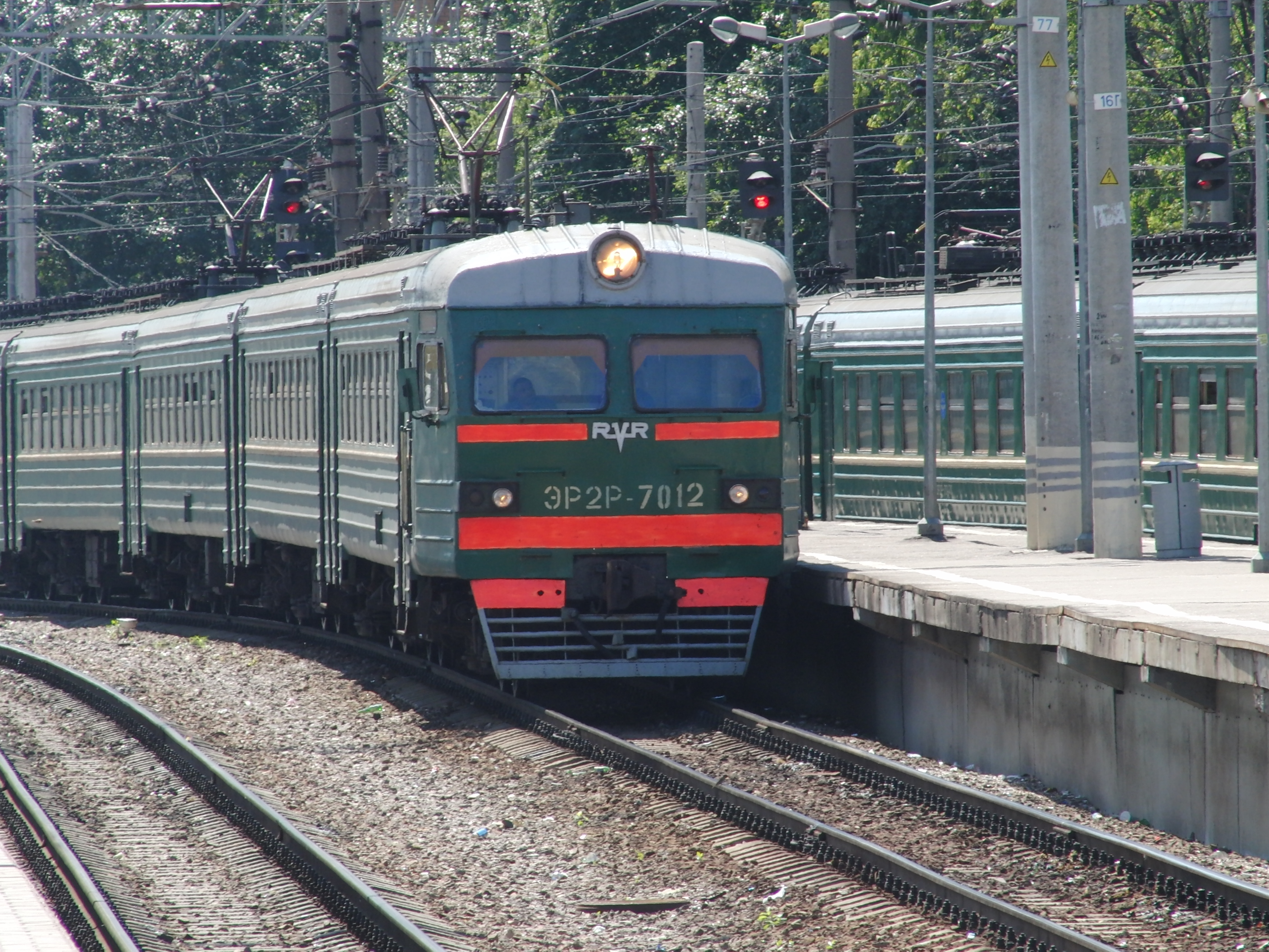 Kursky rail terminal, elektrichka ER2R-7012 (regional train) from Zheleznodorozhny